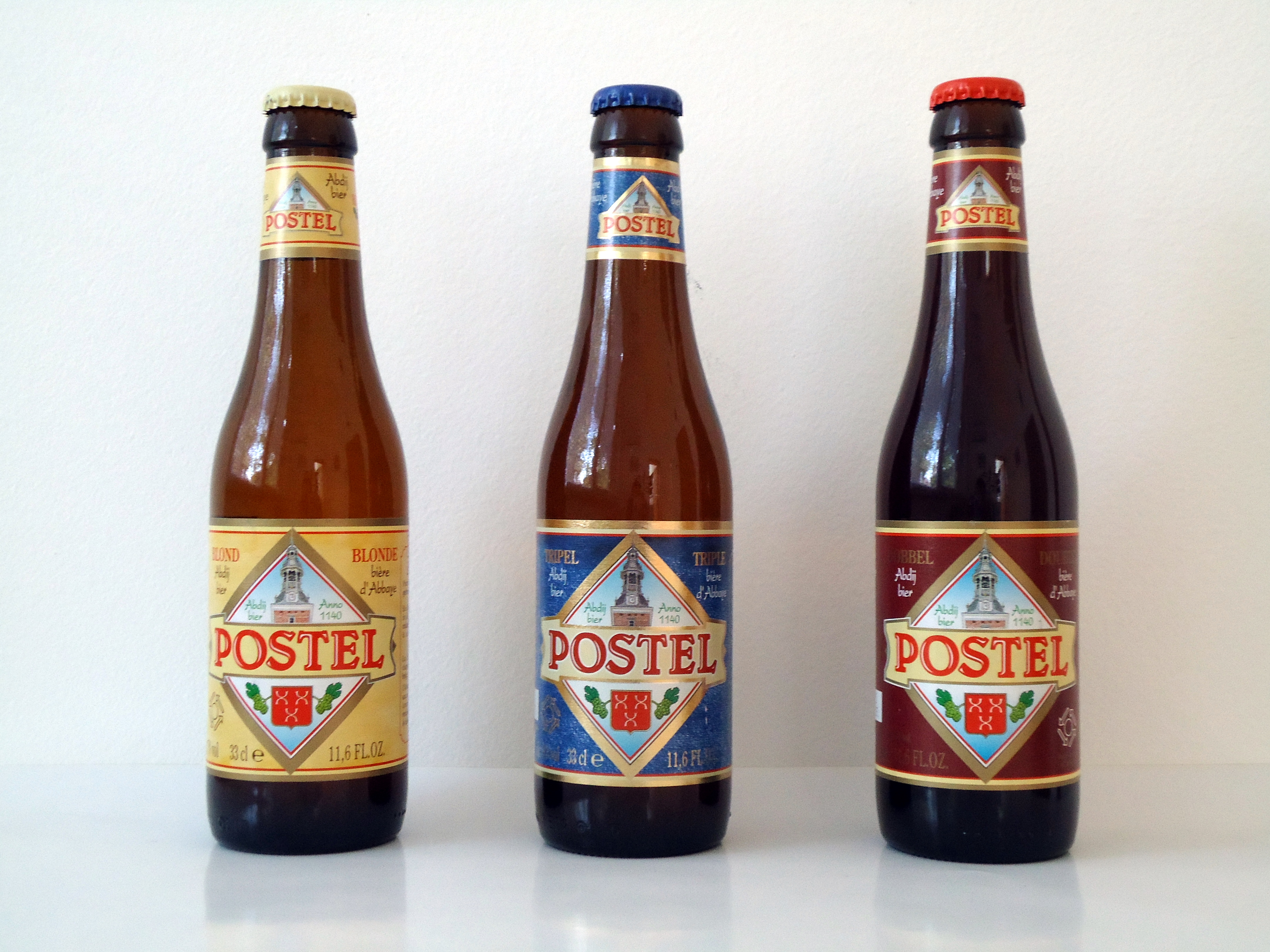 Postel beers